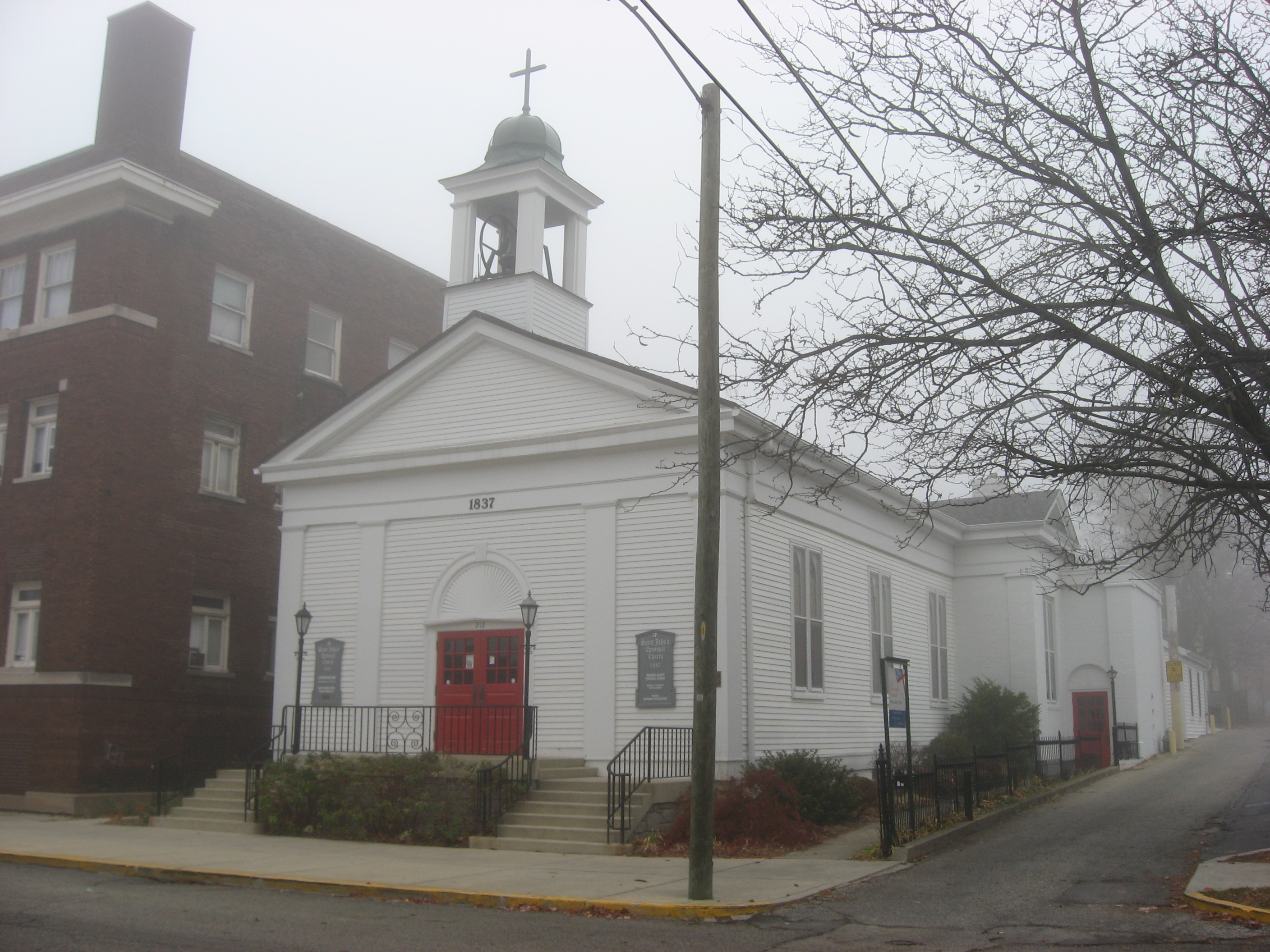 Front and southern side of Saint John's Episcopal Church, located at 212 S. Green Street in Crawfordsville, Indiana, United States. Built in 1837, it is listed on the National Register of Historic Places.